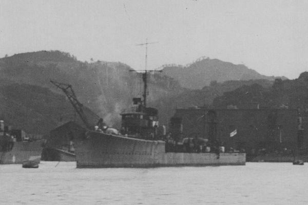 HIJMS Special Training Ship No.1 (ex.- HMS Thracian D86, ex.- HIJMS Patrol Boat No.101